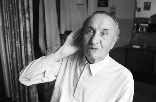 Resident of a nursing home in Munich (Germany)